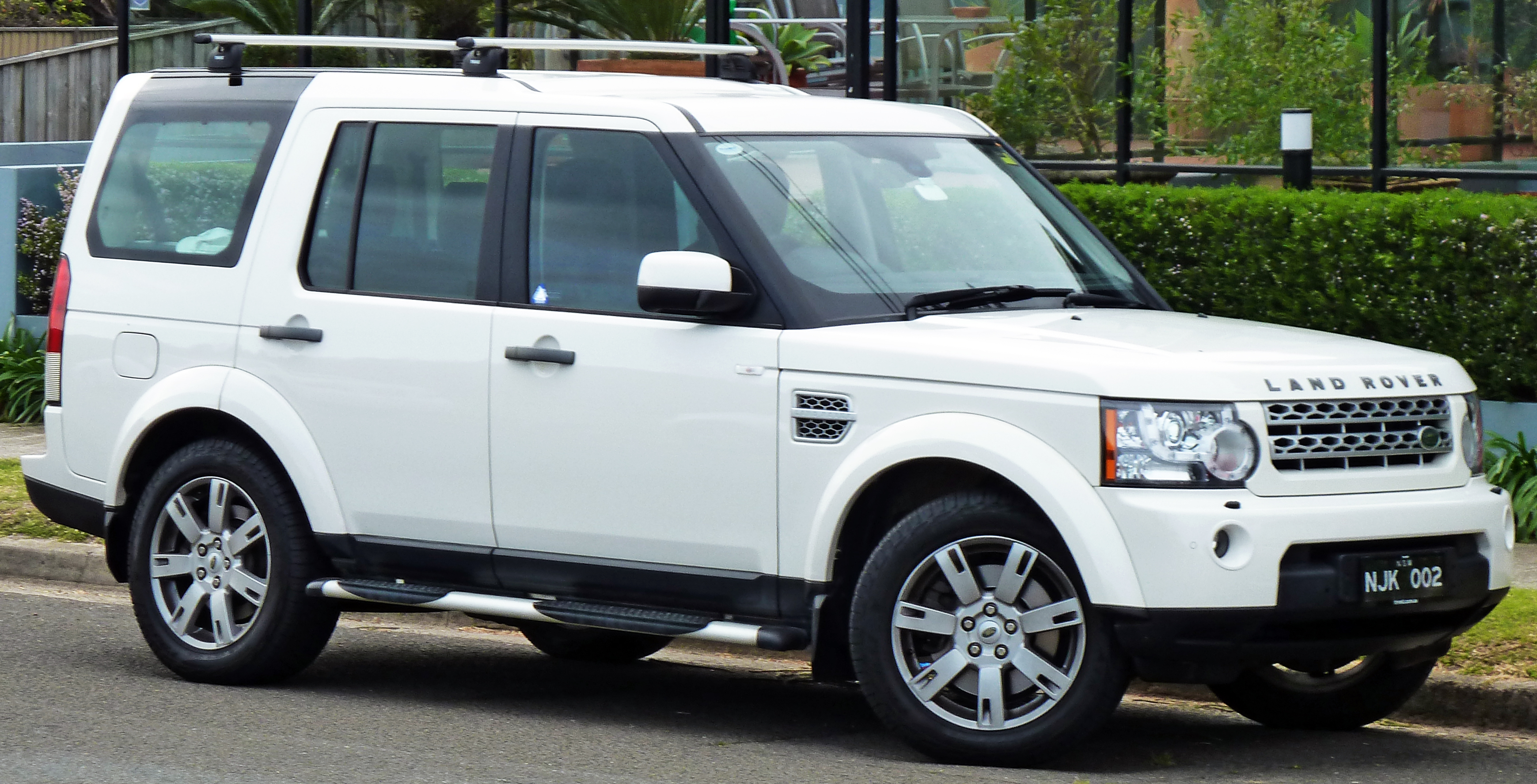 2009–2010 Land Rover Discovery 4 TDV6 SE wagon. Photographed in Sans Souci, New South Wales, Australia.